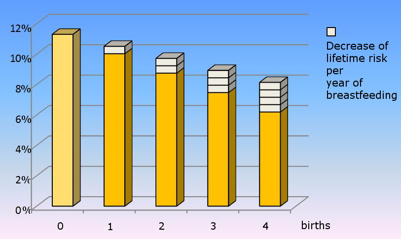 Decrease of breast cancer risk due to parity and breastfeeding; data source: Collaborative Group on Hormonal Factors in Breast Cancer: Breast cancer and breastfeeding: collaborative reanalysis of individual data from 47 epidemiological studies in 30 countries, including 50302 women with breast cancer and 96973 women without the disease. The Lancet, Vol. 360 (9328), 20. July 2002, pp 187–195